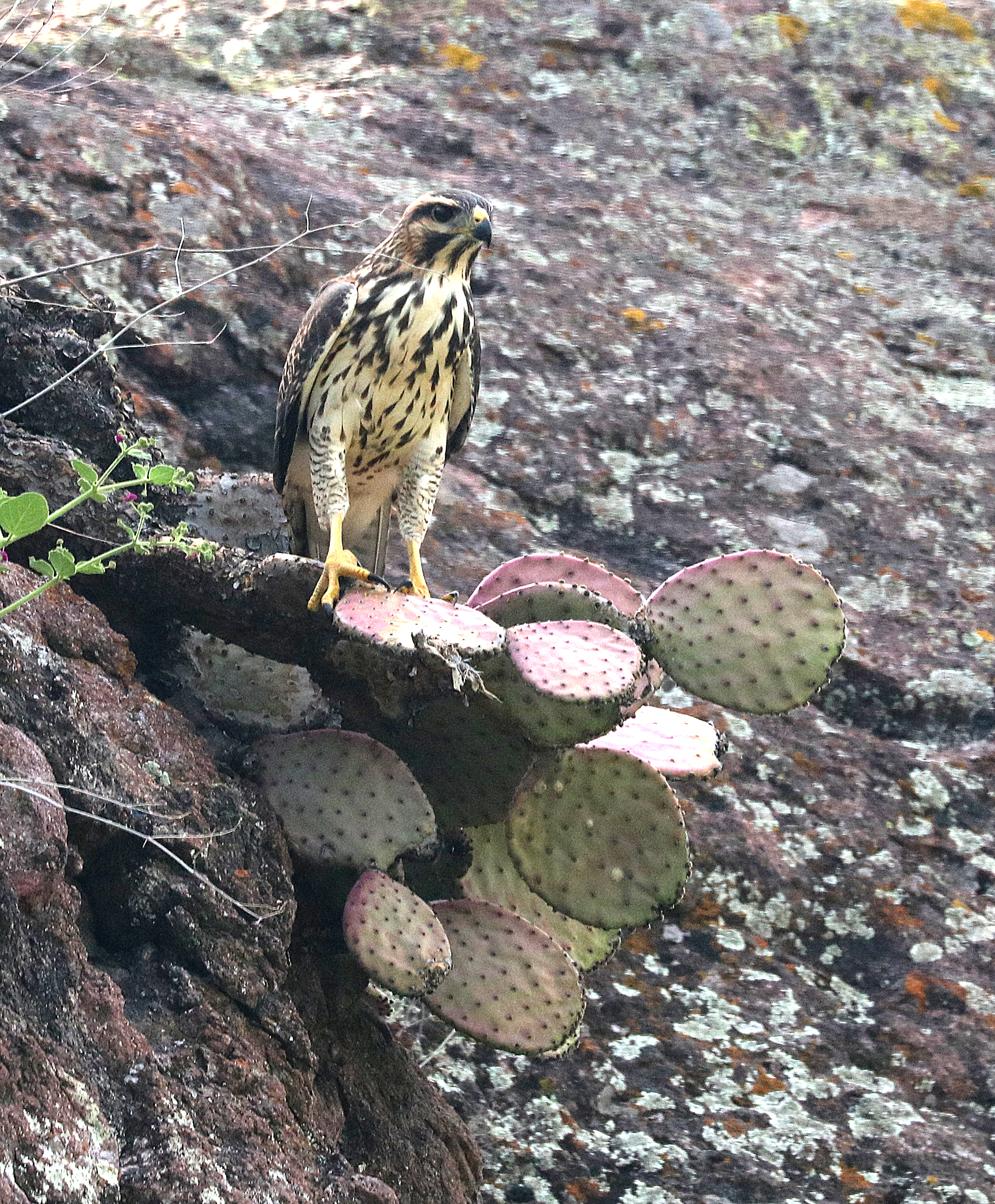 juv. Buteo plagiatus (max 3 month old)